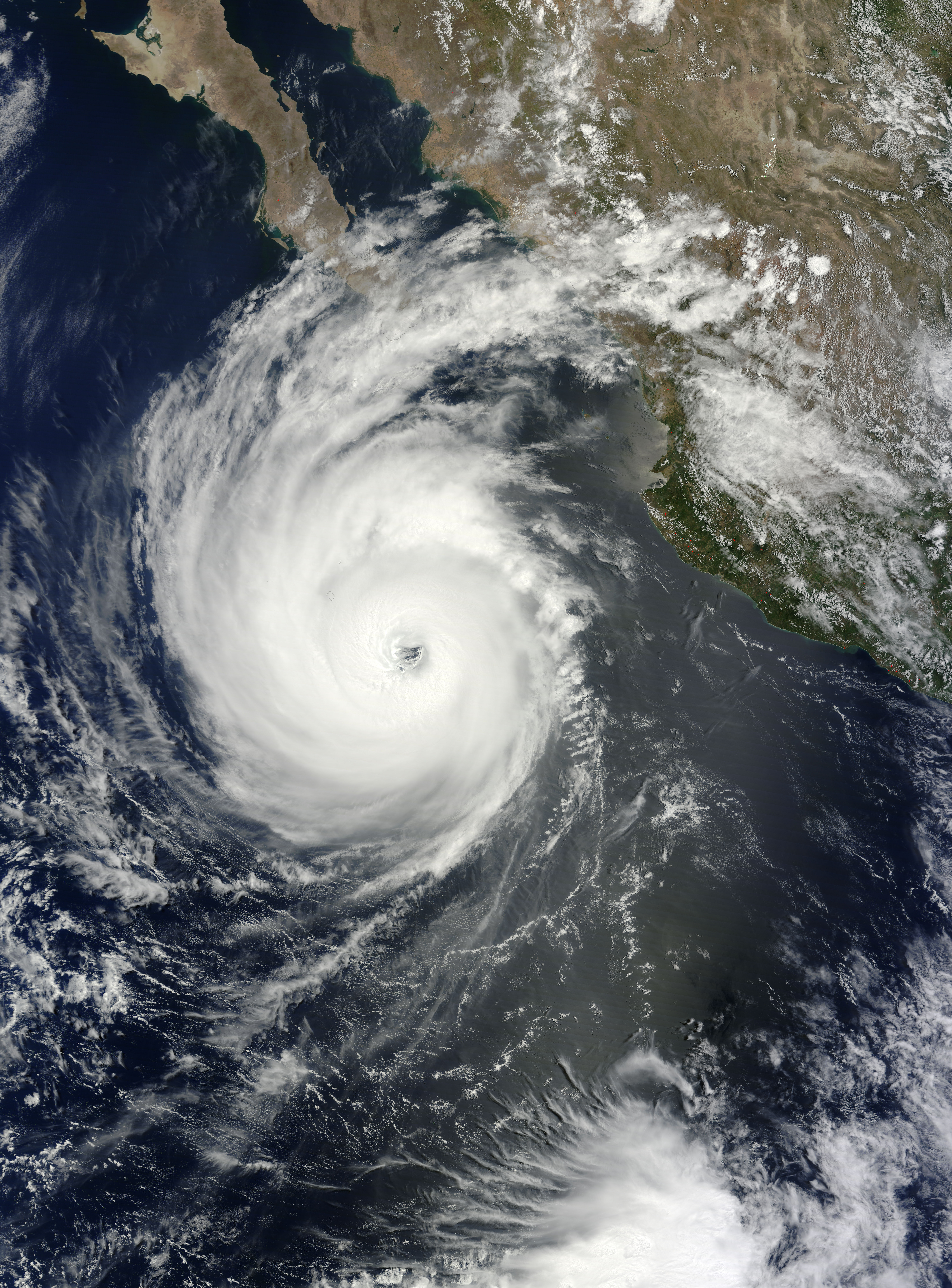 Hurricane Blanca (02E) at its second peak intensity on June 6, 2015 and located off México